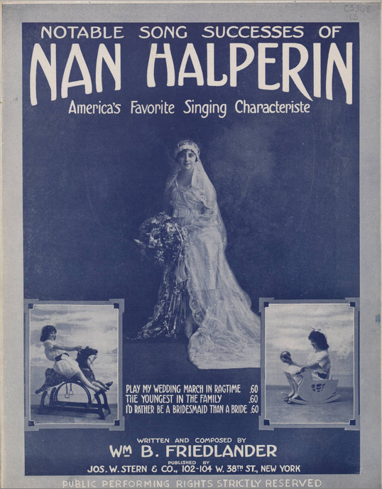 Sheet music cover for Notable Song Successes of Nan Halperin (3 songs by William B. Friedlander)